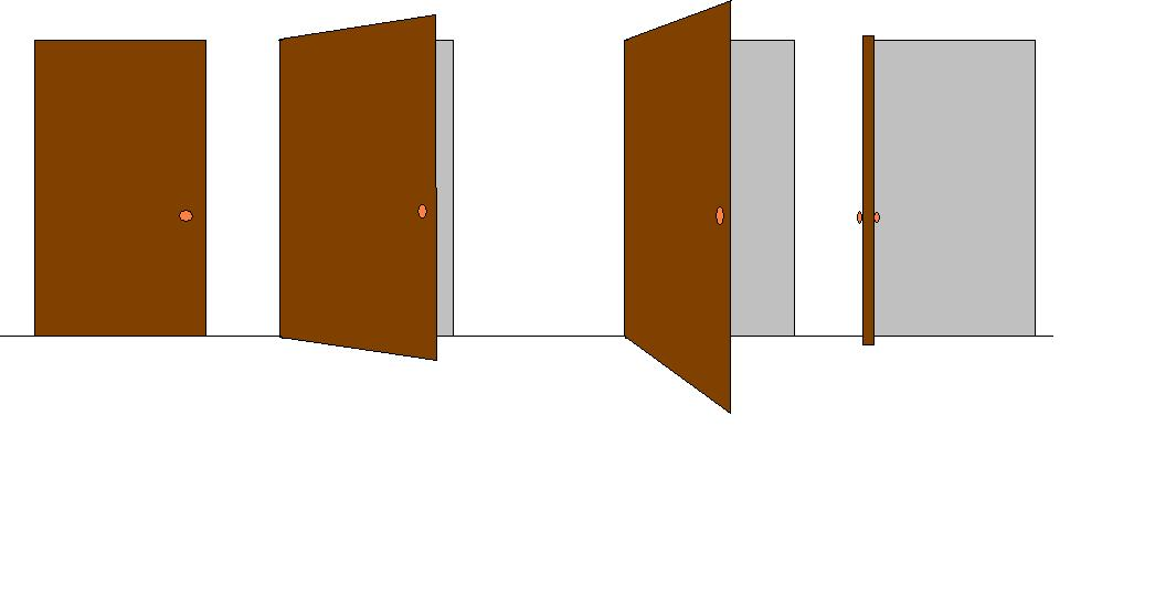 shape-constancy